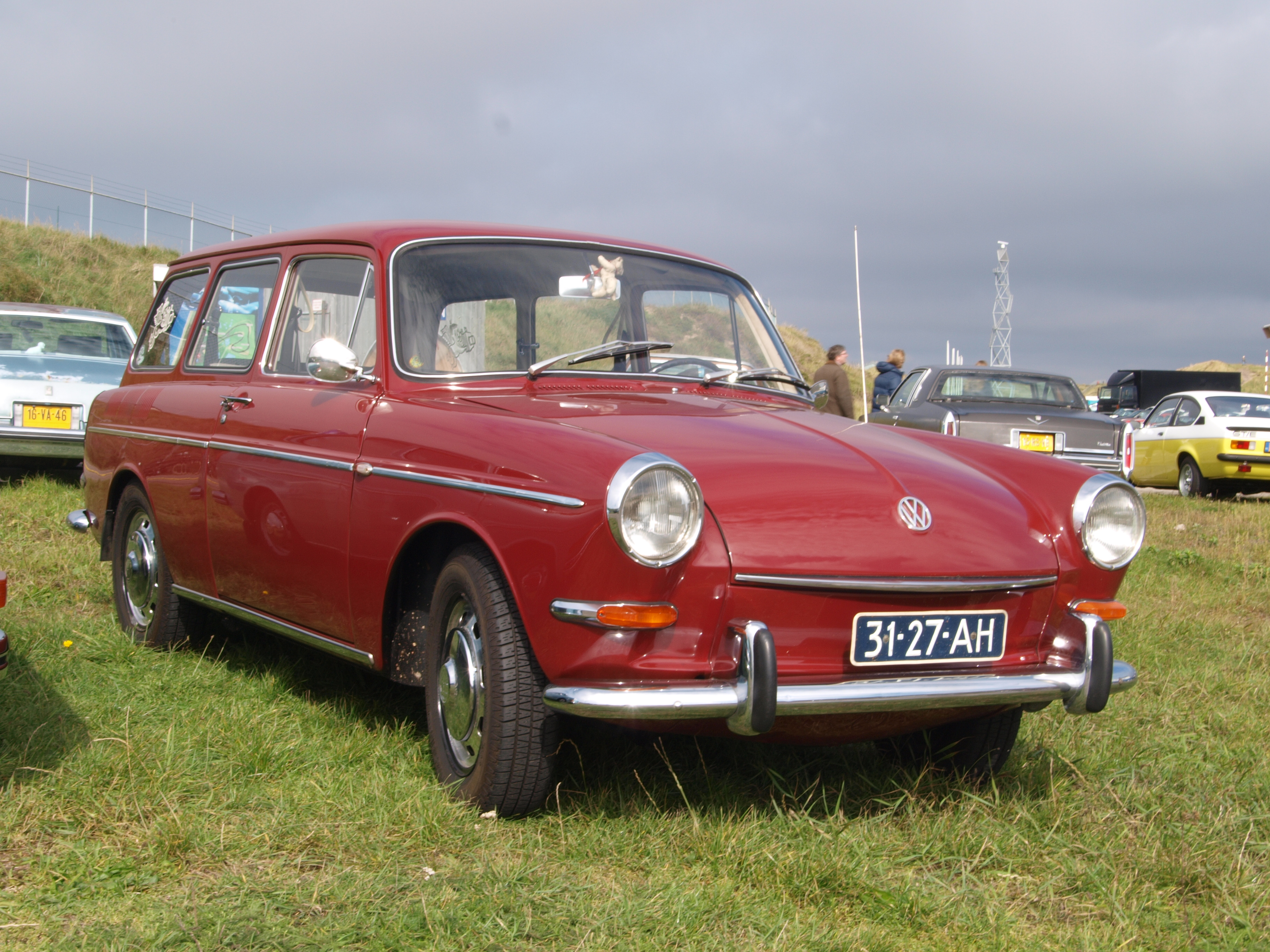 Photographed at the Nationaal Oldtimer Festival Zandvoort 2010, The Netherlands.